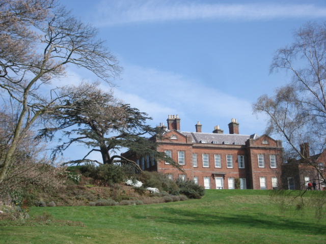 Dudmaston Hall National Trust property, designed by Francis Smith of Warwick for Sir Thomas Wolryche and built between 1695 and 1701.